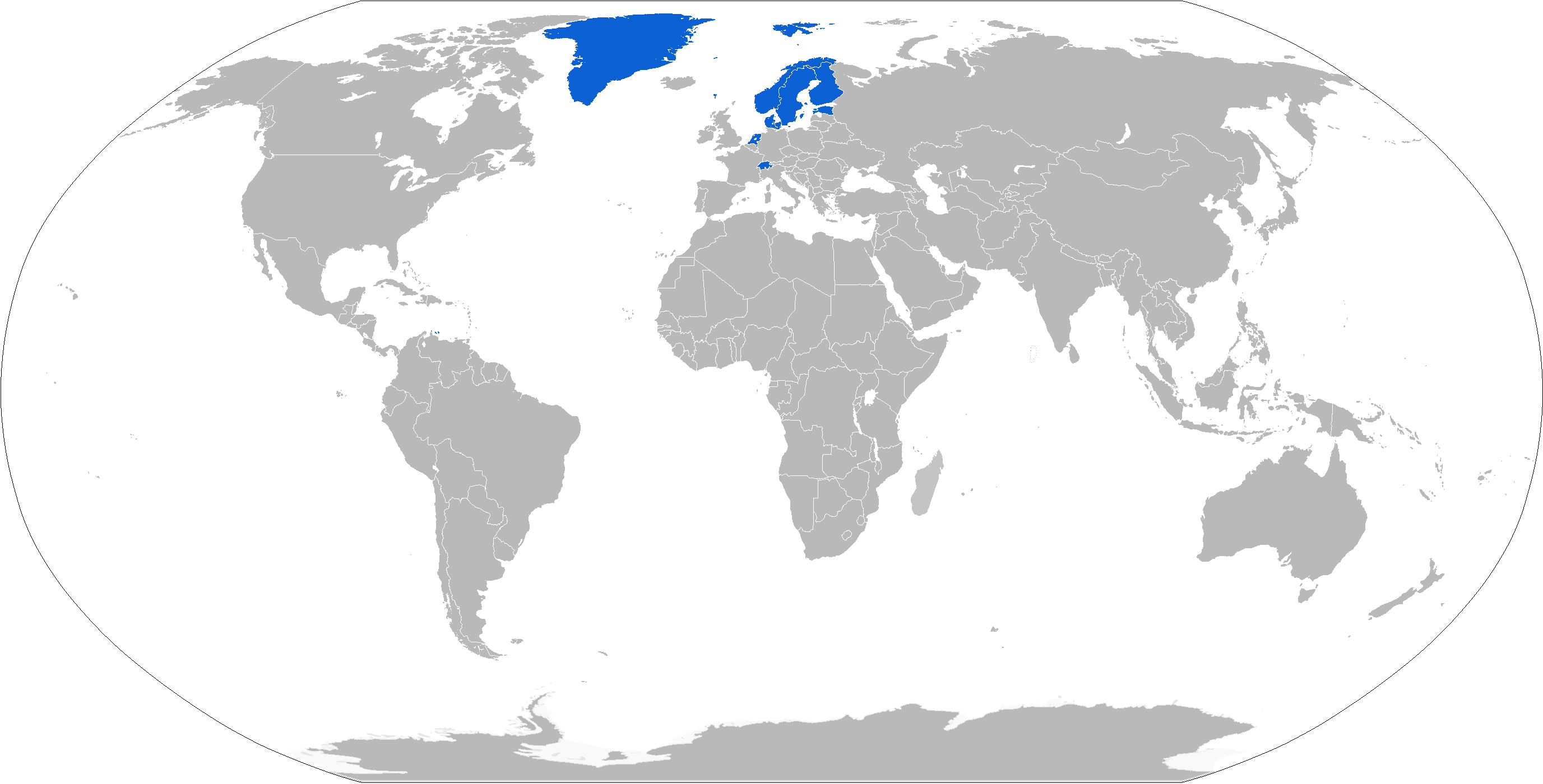 Map of CV-90 operators in blue